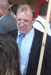 Peter LaBarbera (centre), an American social conservative activist and the president of the anti-gay organization Americans for Truth about Homosexuality (AFTAH).